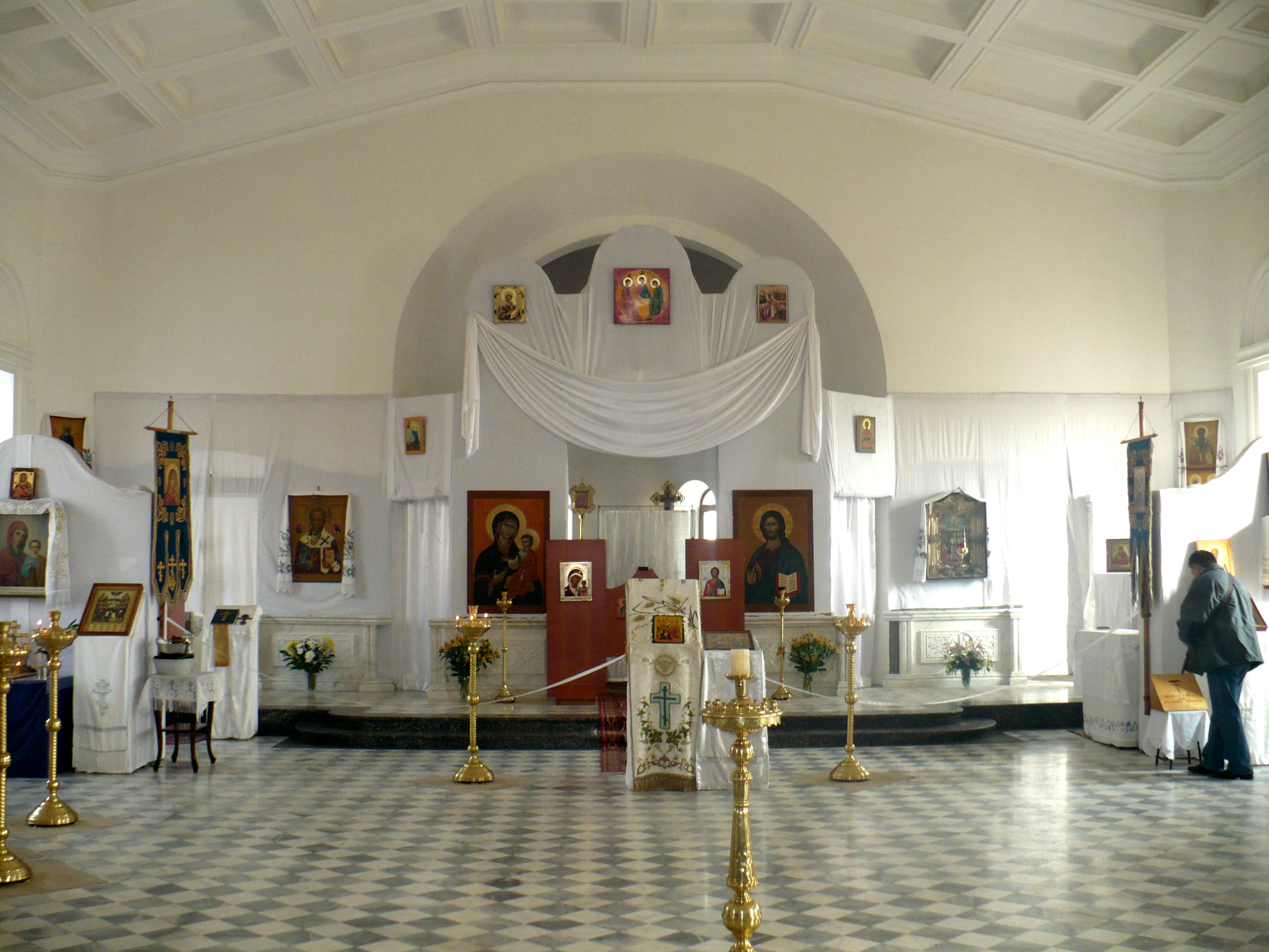 Храм Покрова Пресвятой Богородицы в Ереване, алтарь